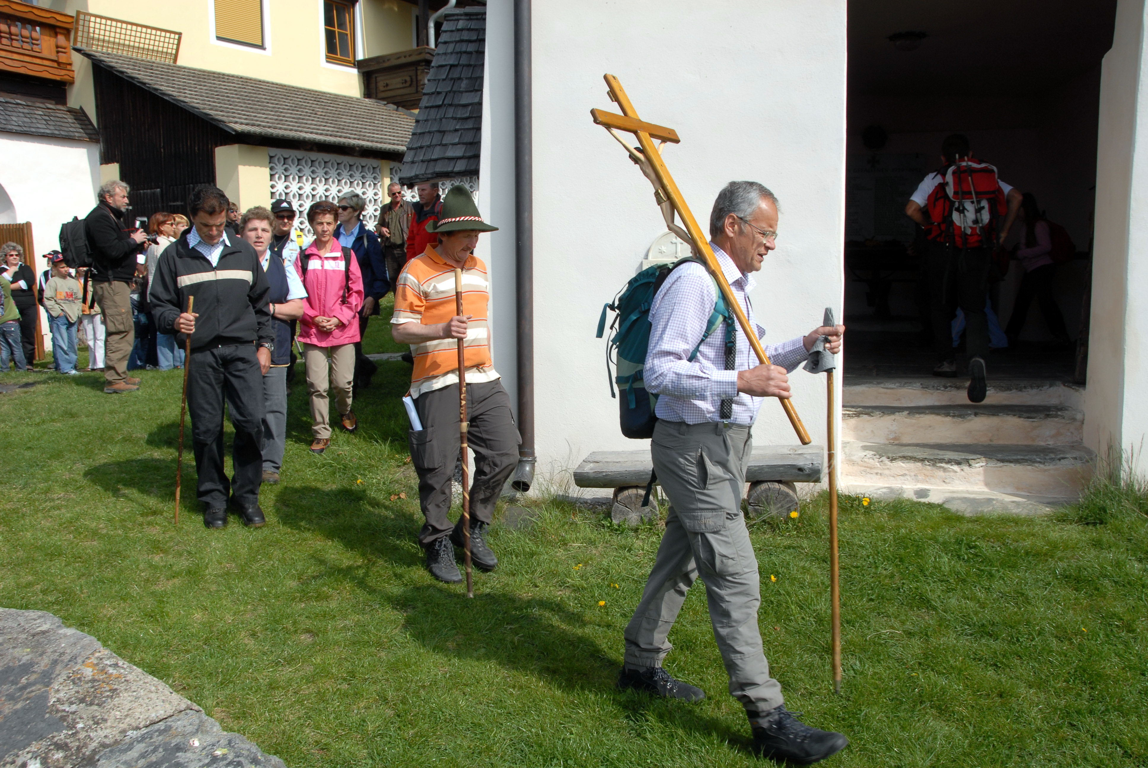 Start of pilgrimage "Vierbergelauf" in Sörg, market town Liebenfels, district St. Veit an der Glan, Carinthia, Austria, EU